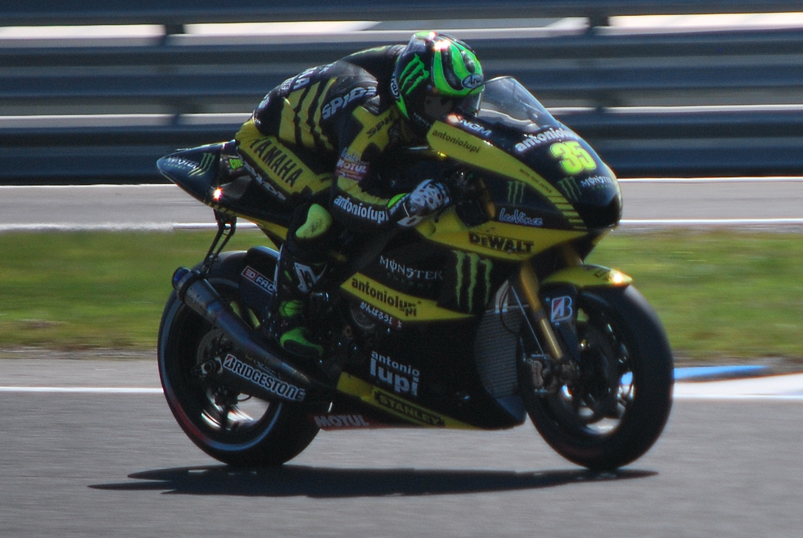 Cal Crutchlow